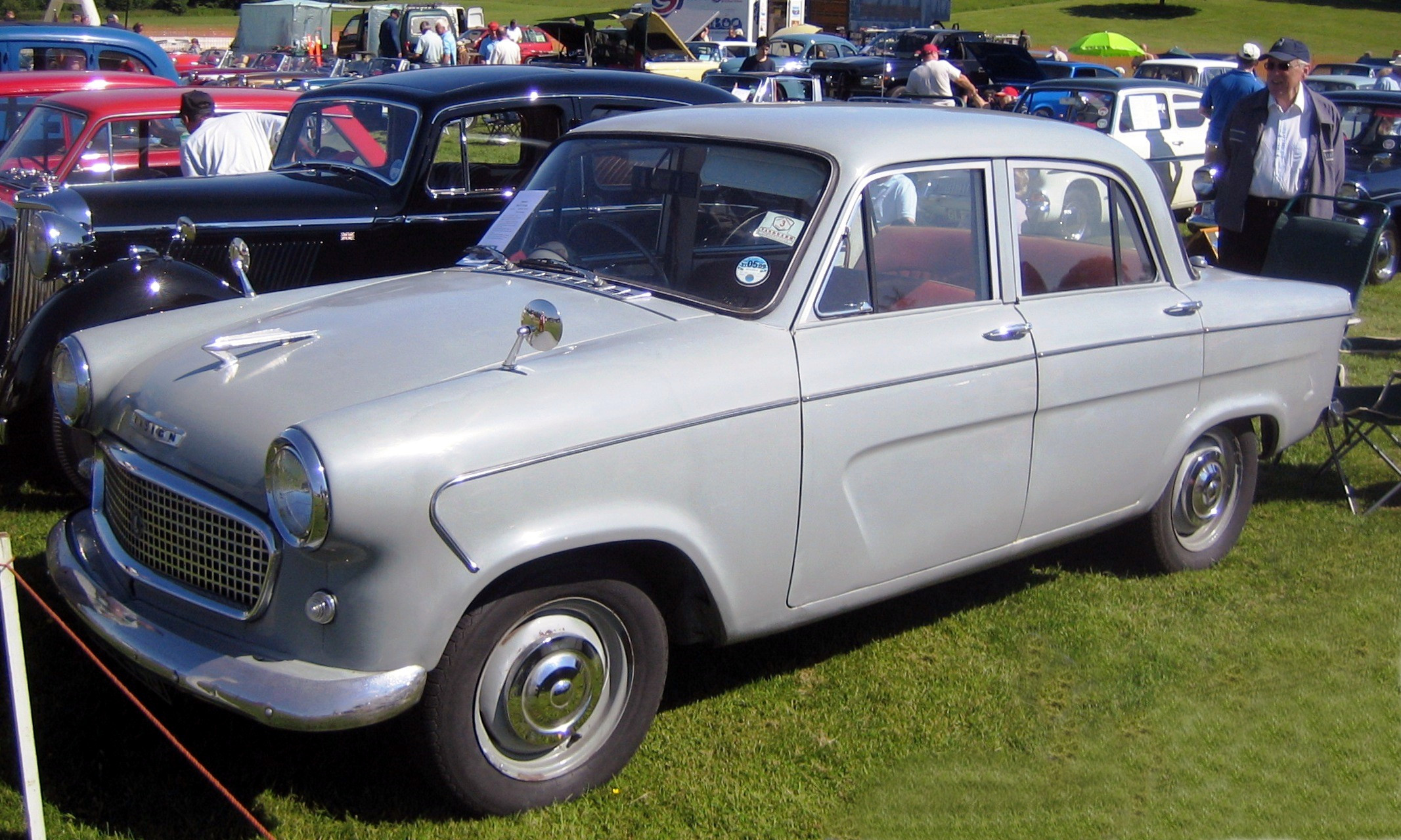 Standard Ensign which was a downmarket Standard Vanguard Series III. Same body, though SOME Ensigns came with smaller engines